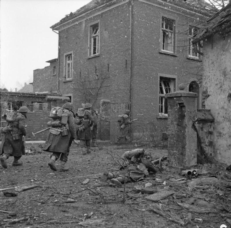 The British Army in North-west Europe 1944-45 Men of the 4th Royal Welch Regiment in Weeze, 3 March 1945.